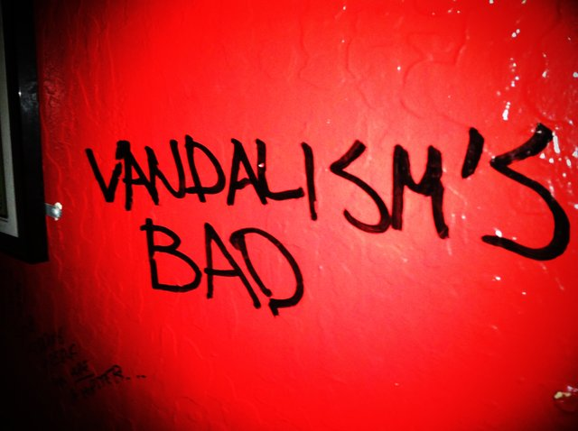 Humorous vandalism on the wall of a bar in San Francisco, reading “VANDALISM'S BAD”.